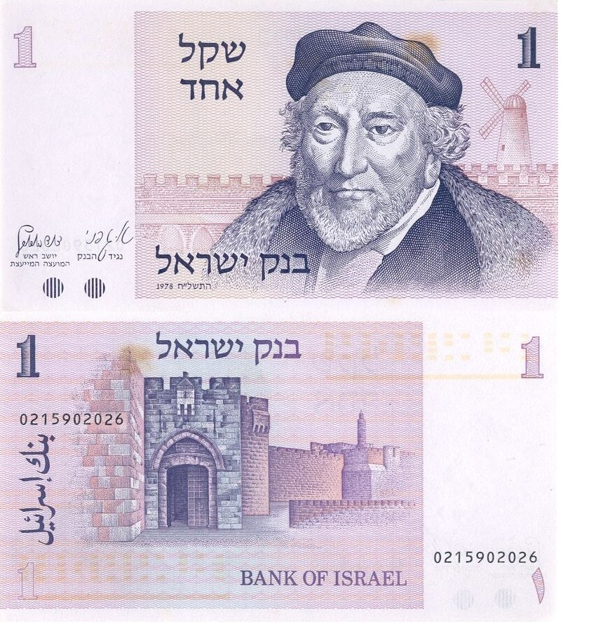 Obverse & Reverse side of a 1 shekel bill, paper.